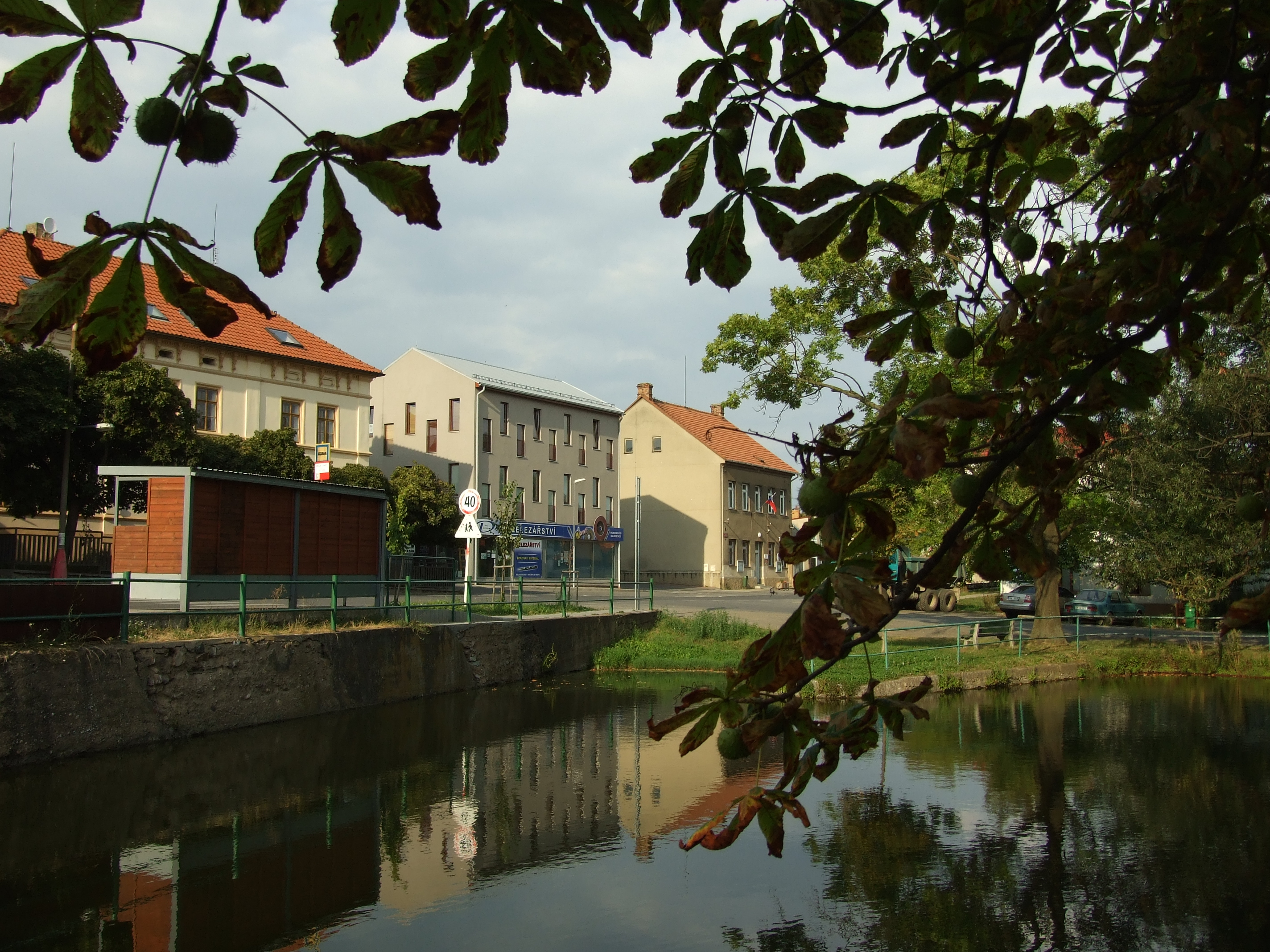 Town of Jinočany in Central Bohemian Region, CZhelp